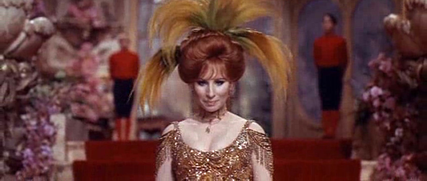 Screenshot of Barbra Streisand from the trailer for the film Hello, Dolly! (film)